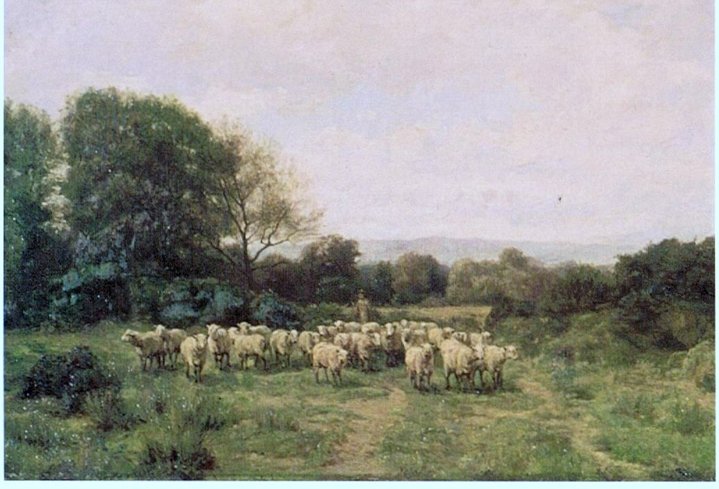 English Landscape.